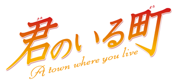 A Town Where You Live logo